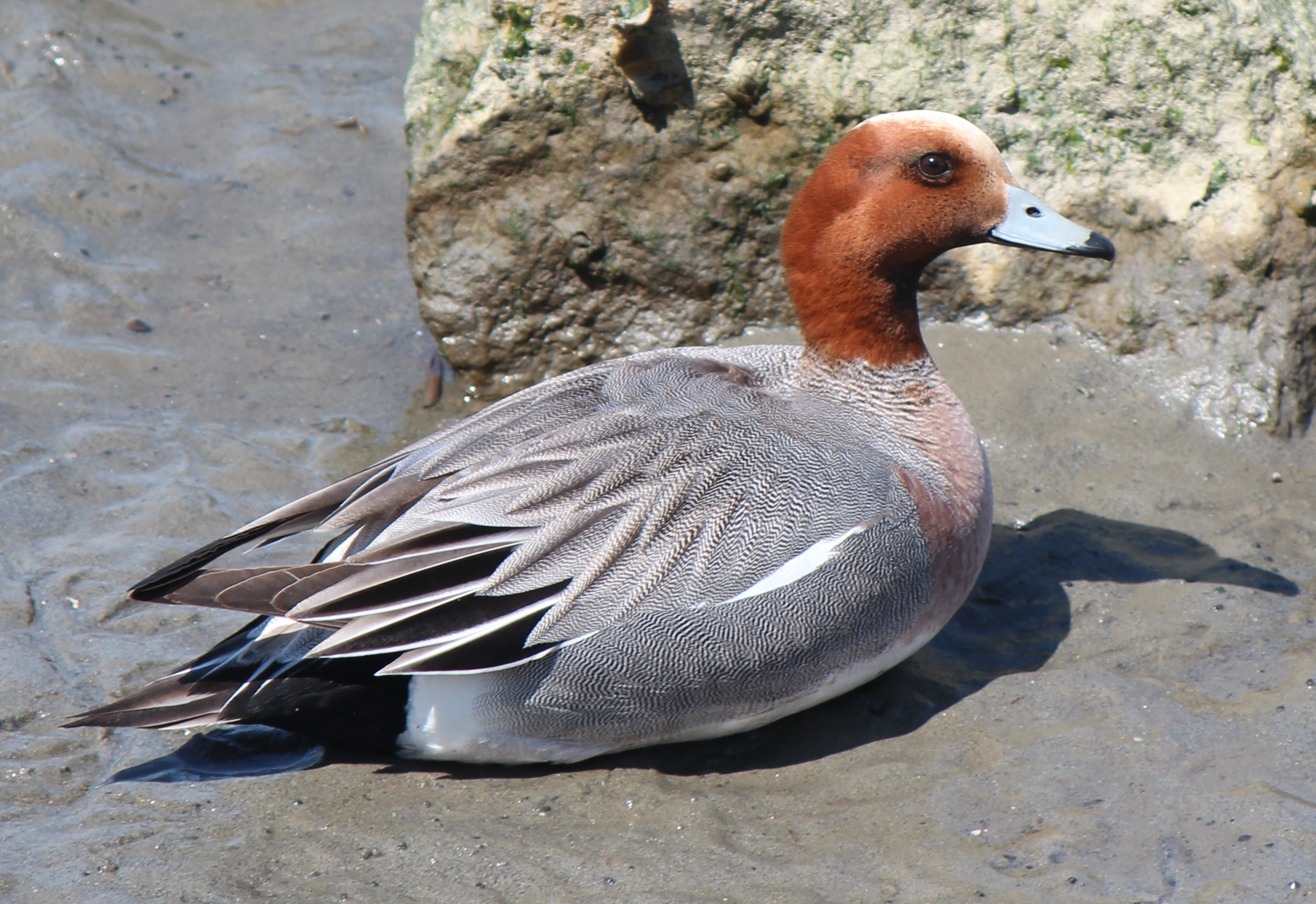 Anas penelope (Wigeon), male, in Fujimae-higata, Nagoya, Aichi prefecture, Japan.